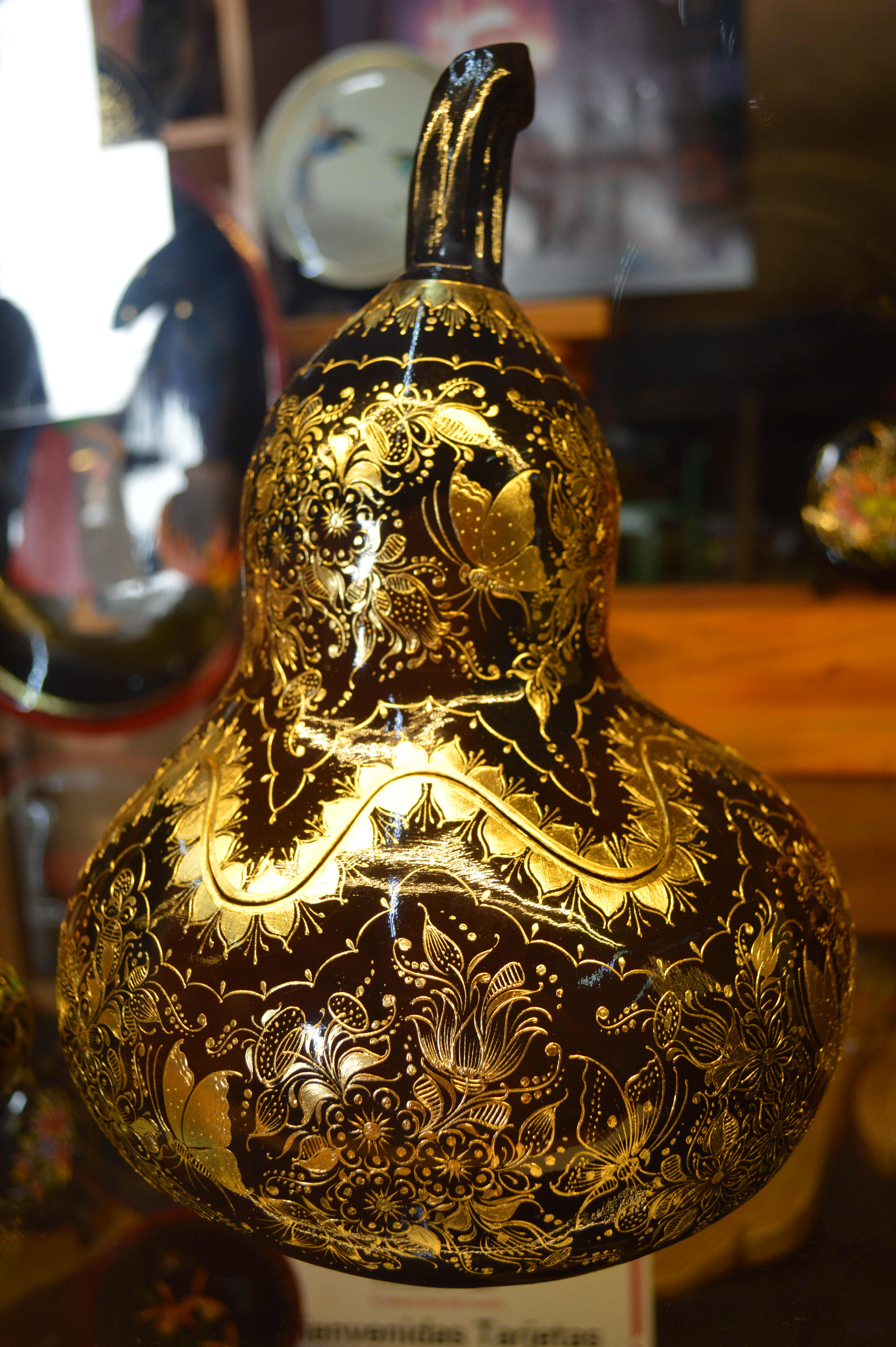 Gourd with lacquer and gold at the Gaspar family workshop in the Casa de los 11 Patios in Patzcuaro, Michoacan